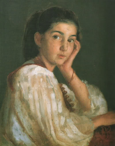 Portrait of Princess Elena of Montenegro (1873–1952)